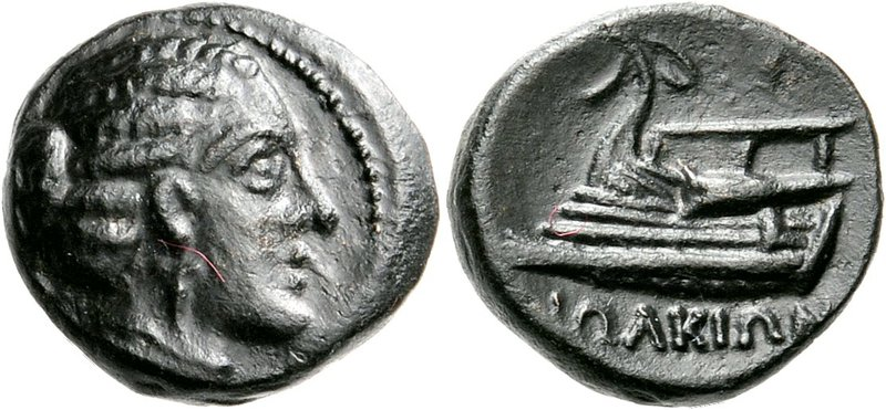 Iolkos. Mid 4th century BC. Chalkous (Bronze, 14mm, 2.20 g 12). Head of Artemis Iolkia to right, with an earring and with her hair in a bun at the back of her head. Rev. ΙΩΛΚΙΩΝ Prow of galley Argo to left, with branch attached to the stem post.